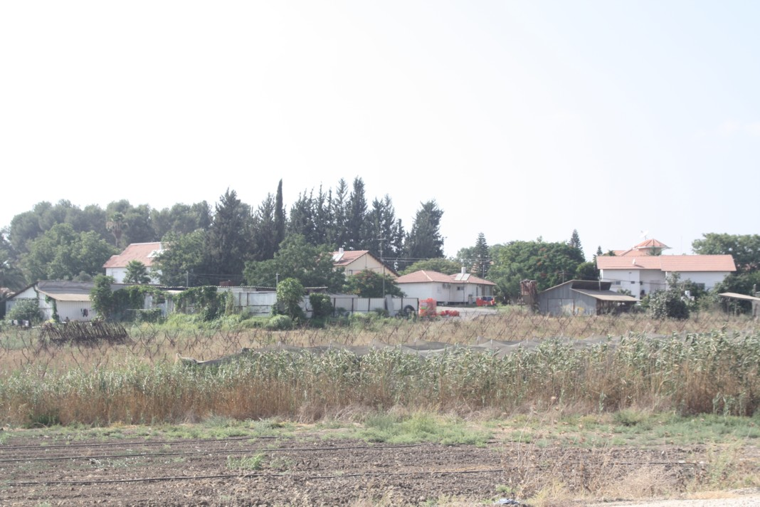 Petahya